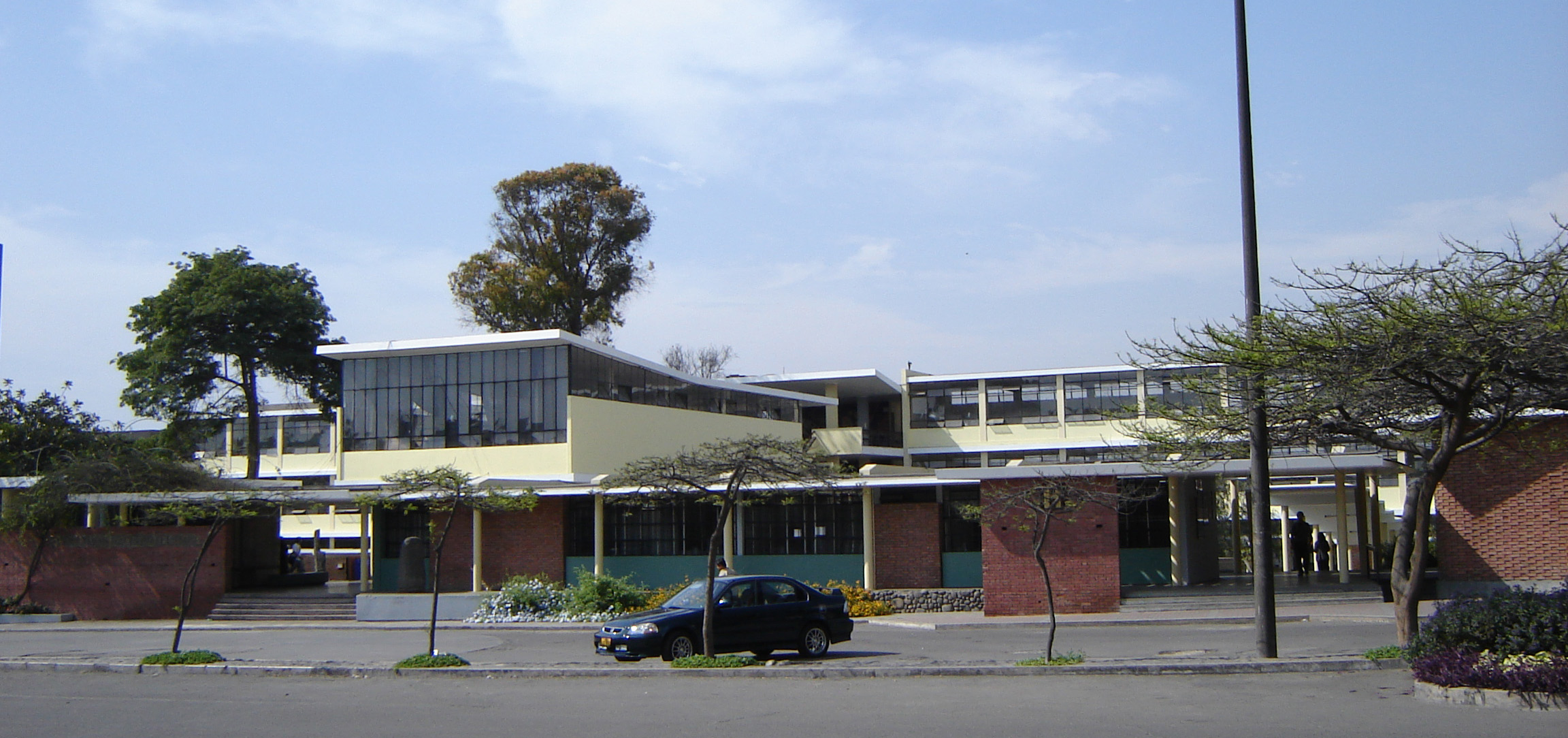 Building of the Faculty of Architecture at the National University of Engineering in Lima, Peru.